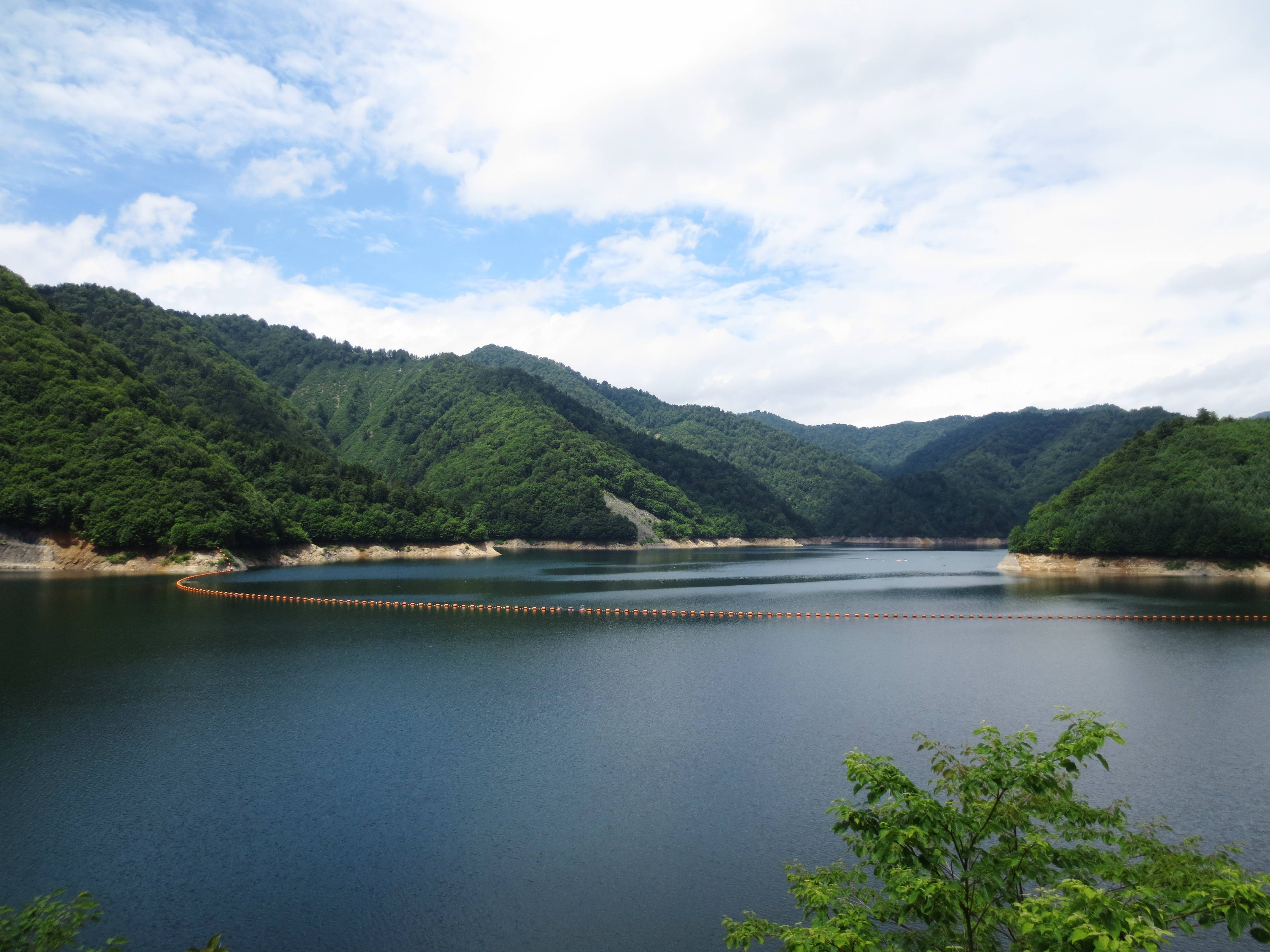 Naramata Dam.